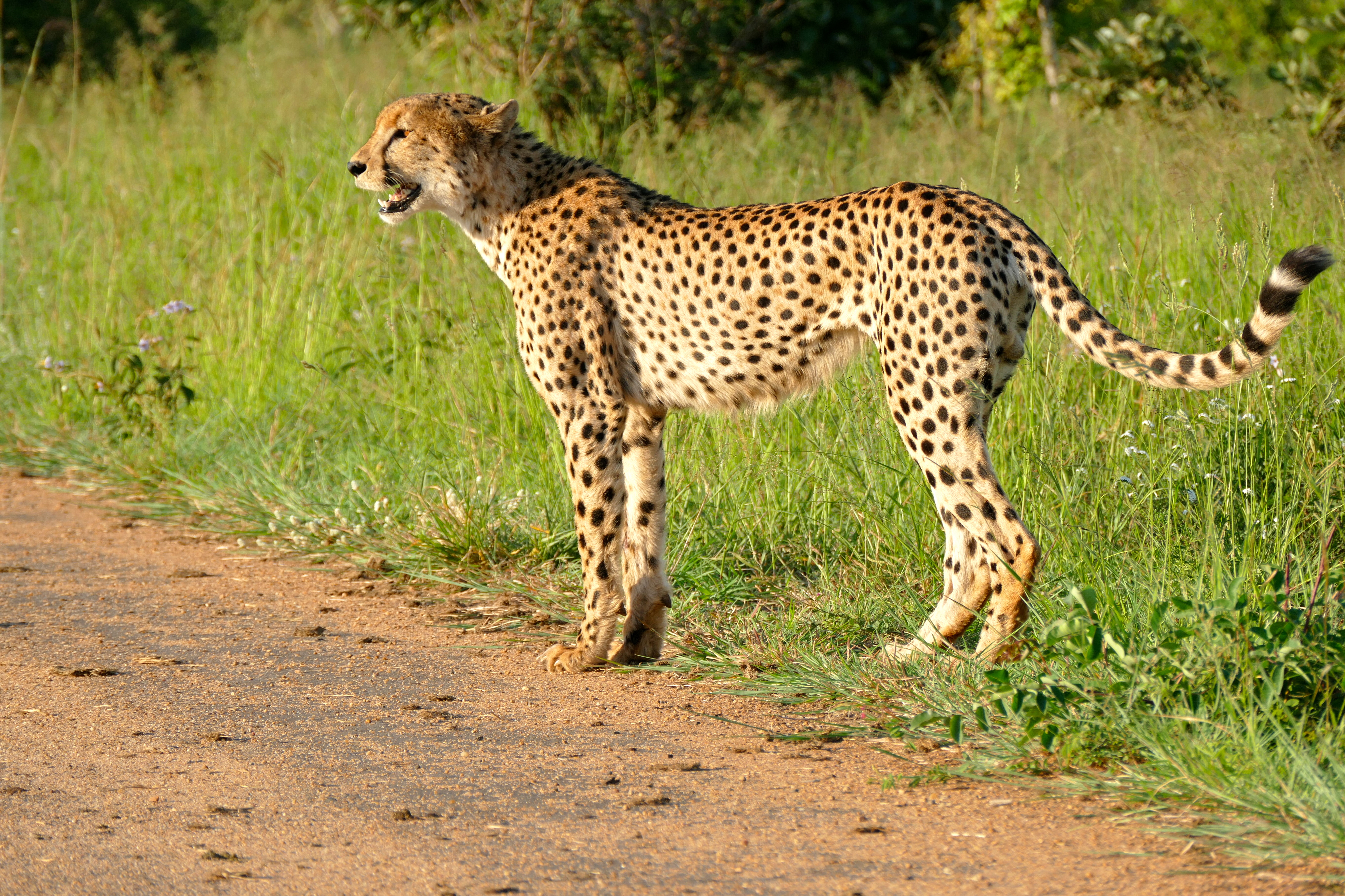 H10 Road North of Lower Sabie, Kruger NP, SOUTH AFRICA